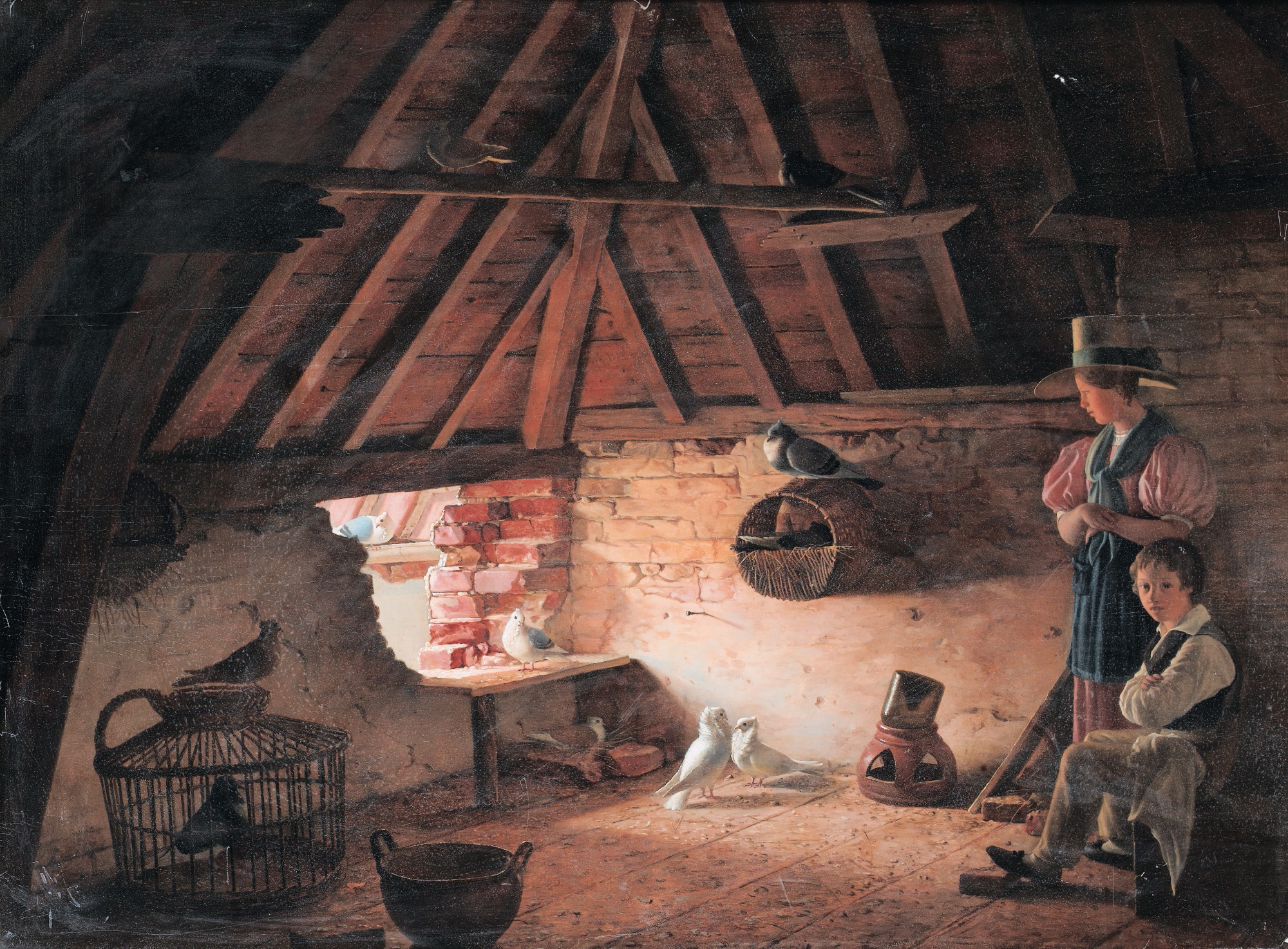 In the dovecot oil on panel 62,5 x 83 cm signed b.r.: H Voordecker Brux 1833